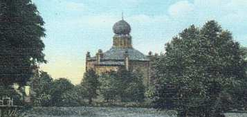 Synagogue in Bolesławiec